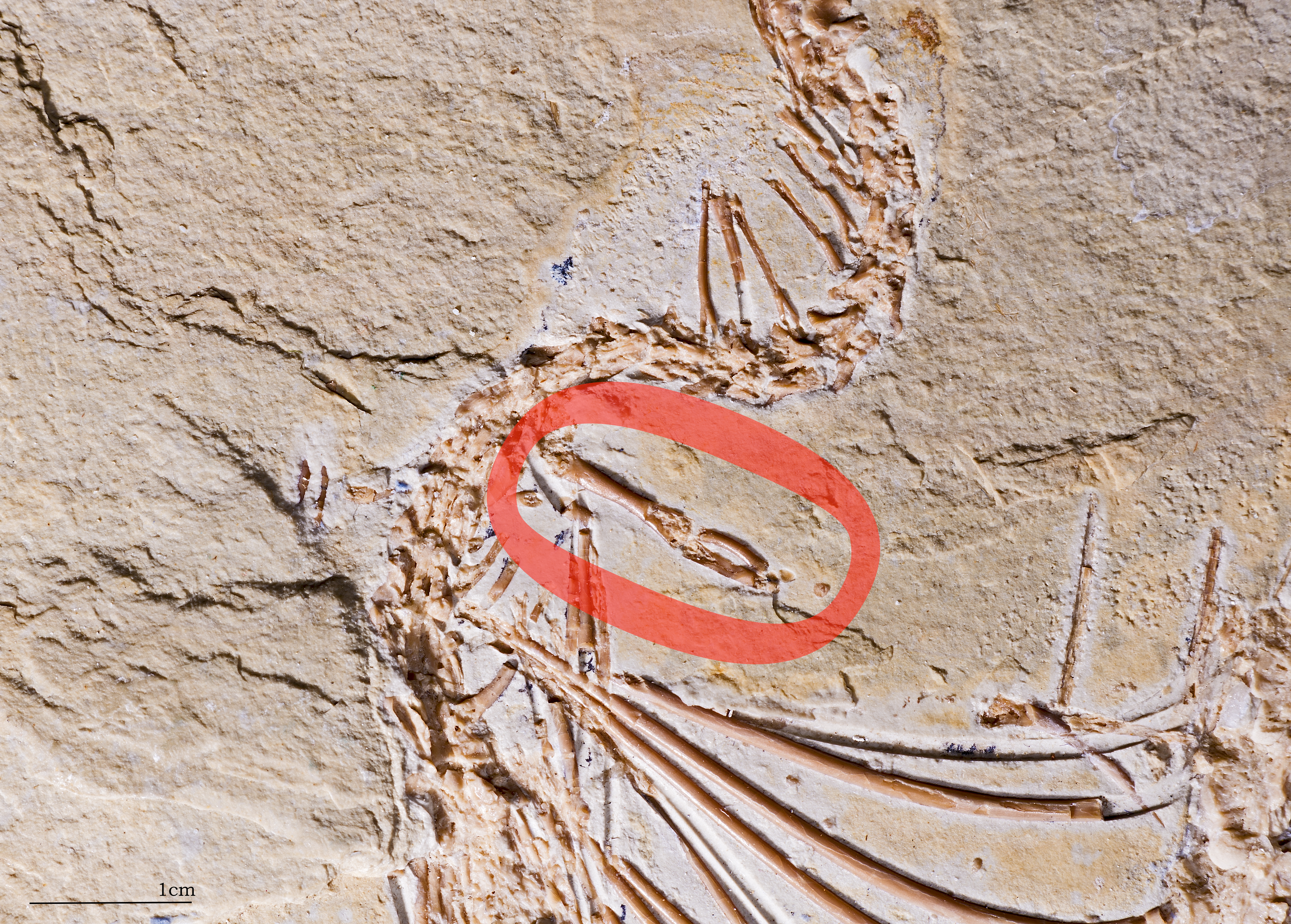 Eupodophis descouensi- Holotype - Hind leg Stage : Cenomanian 99.6 ± 0.9 Ma and 93.5 ± 0.8 Ma (million years ago).